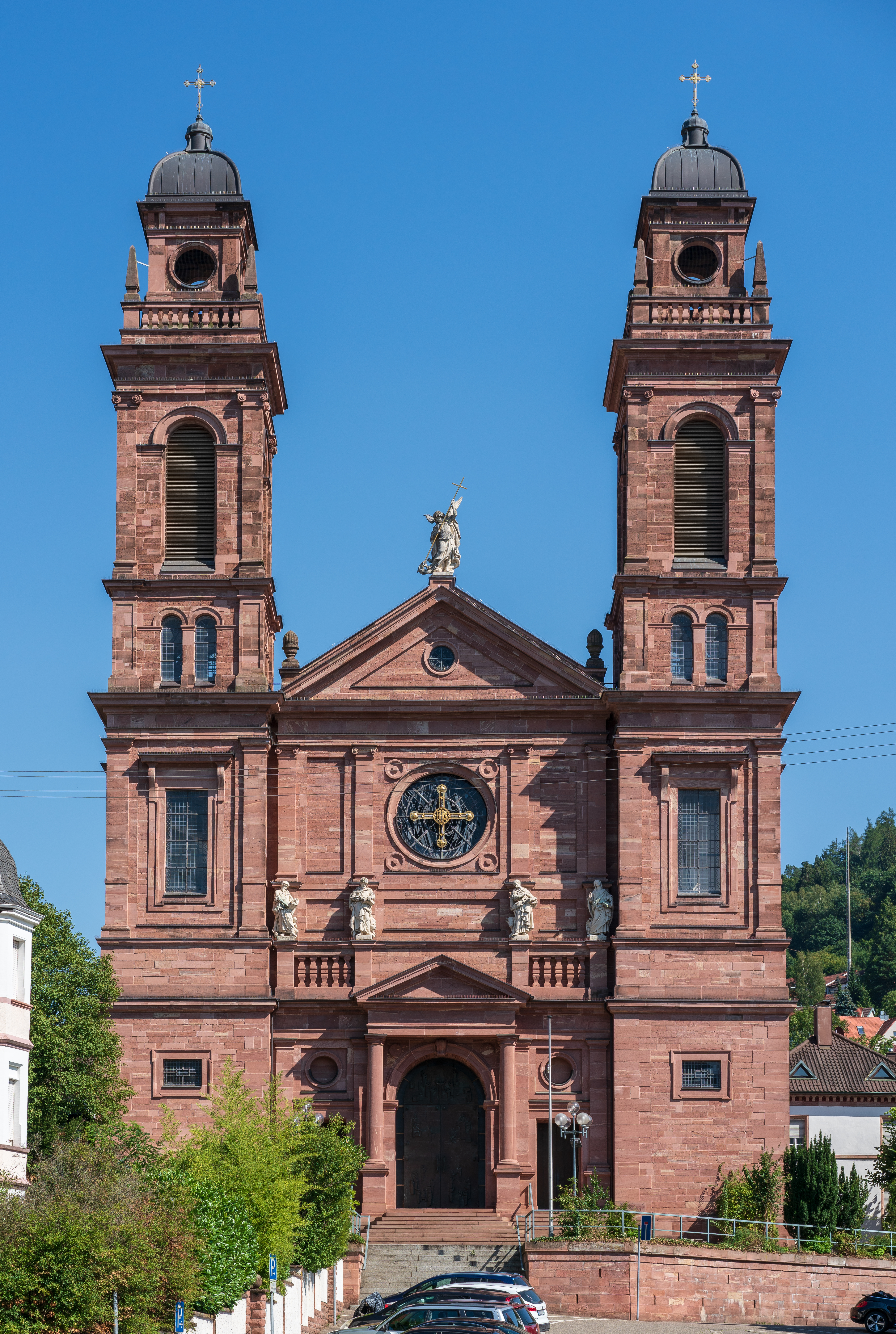 Eberbach, Germany: Main facade of the Saint John of Nepomuk church, built in 1884–1887 in Renaissance Revival style.